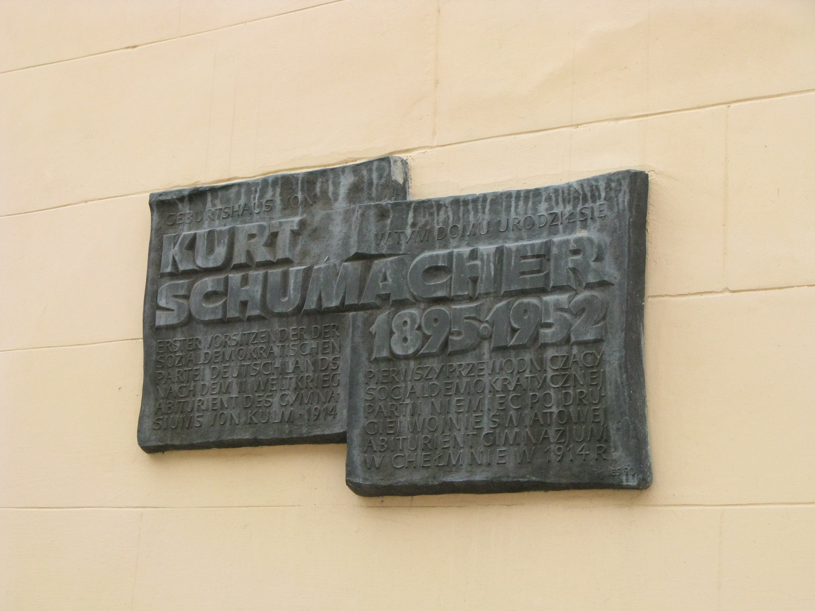 Plaque on Kurt Schumacher birth house in Chełmno